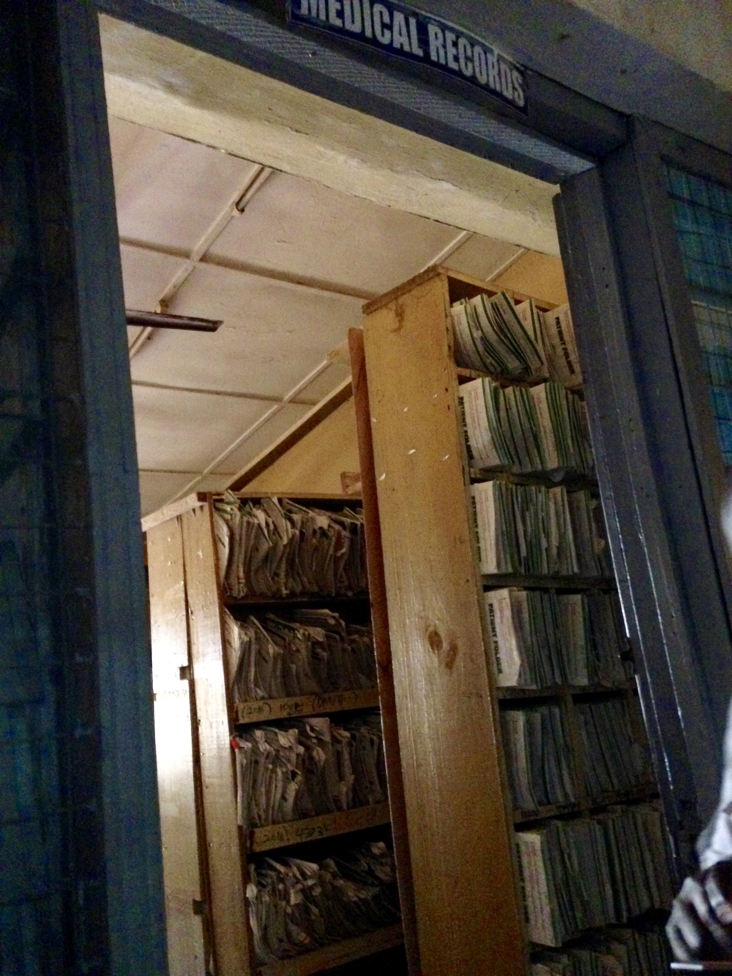 While the rest of other countries are faced with the rise of information technology, many countries are still lagging behind. Such huge gap in access to health information systems have substantial ramifications to how we can provide health services, and hence, how we can fix our current health systems. This is an image of "African people at work" from Ghana